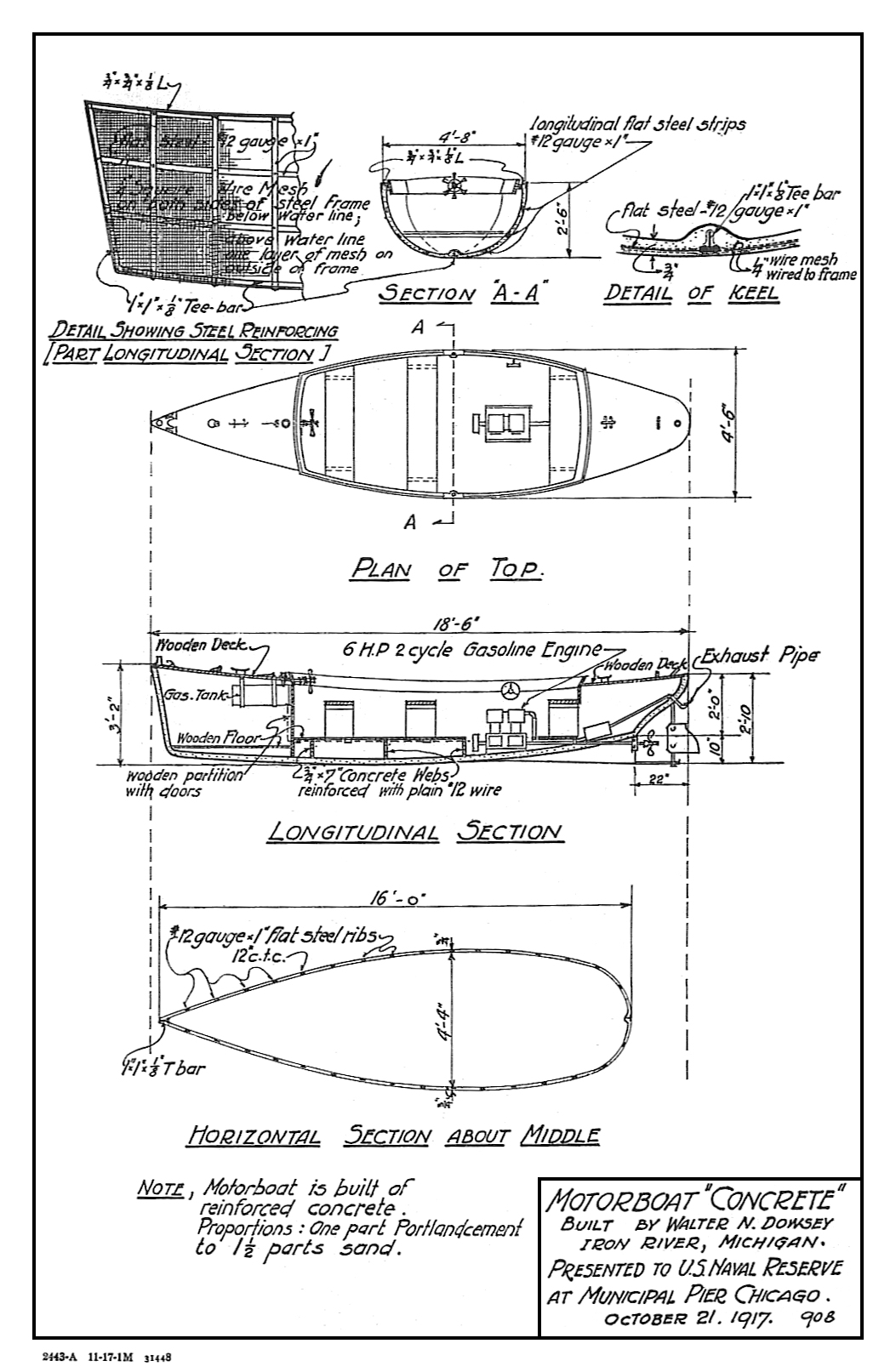 Walter Dowsey, Uploaded by Great Great Grandson, found while cleaning.